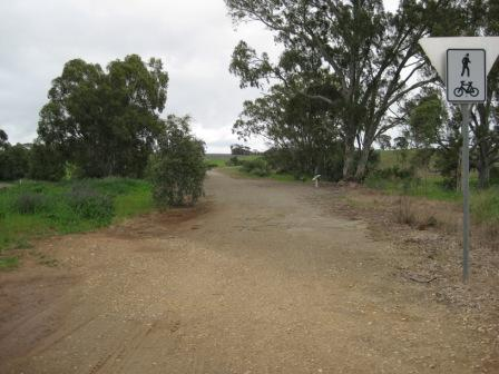 Riesling Trail, looking north towards Leasingham, Clare Valley, South Australia.